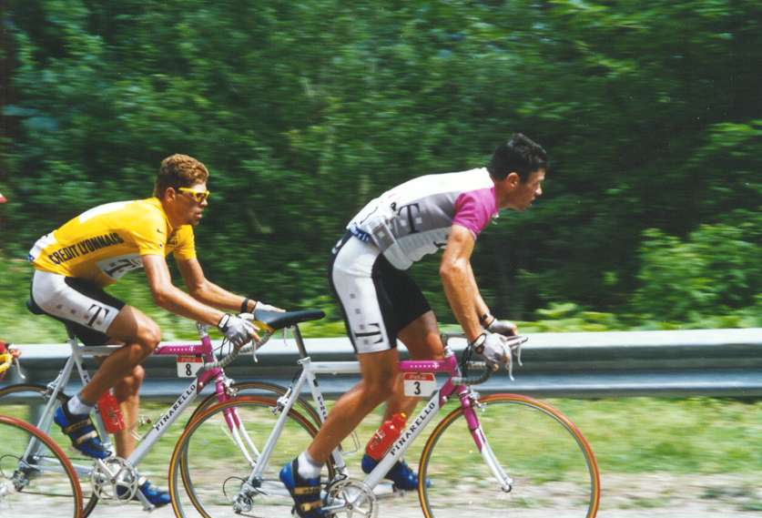 Jan Ullrich and Udo Bölts crossing the Vosges mountains together in the 1997 Tour de France.